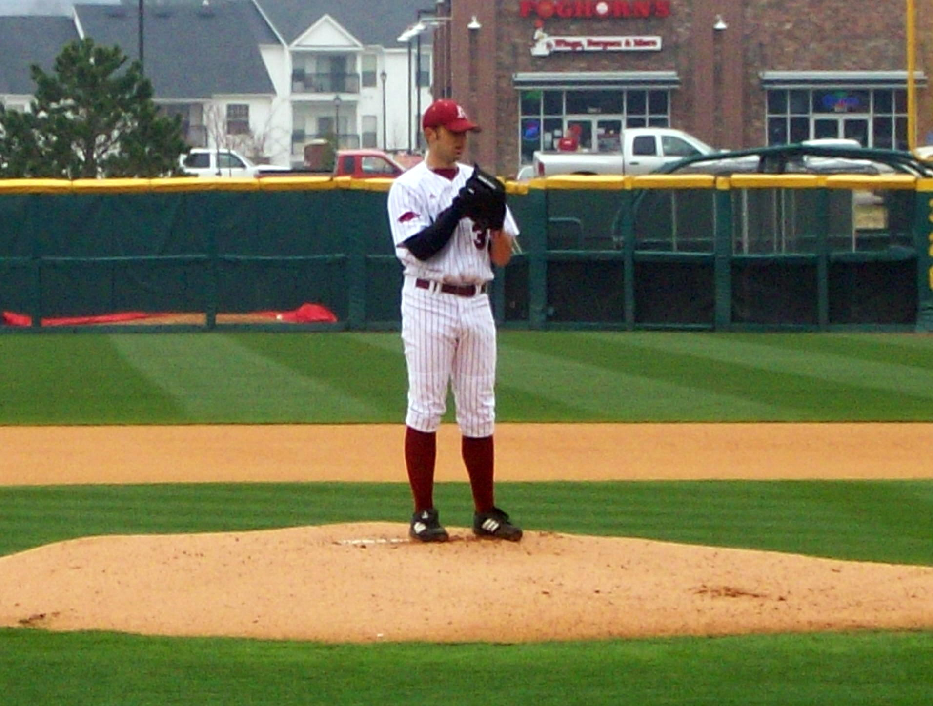 Mark Bolsinger of the University of Arkansas Razorbacks baseball team pitching in 2009.